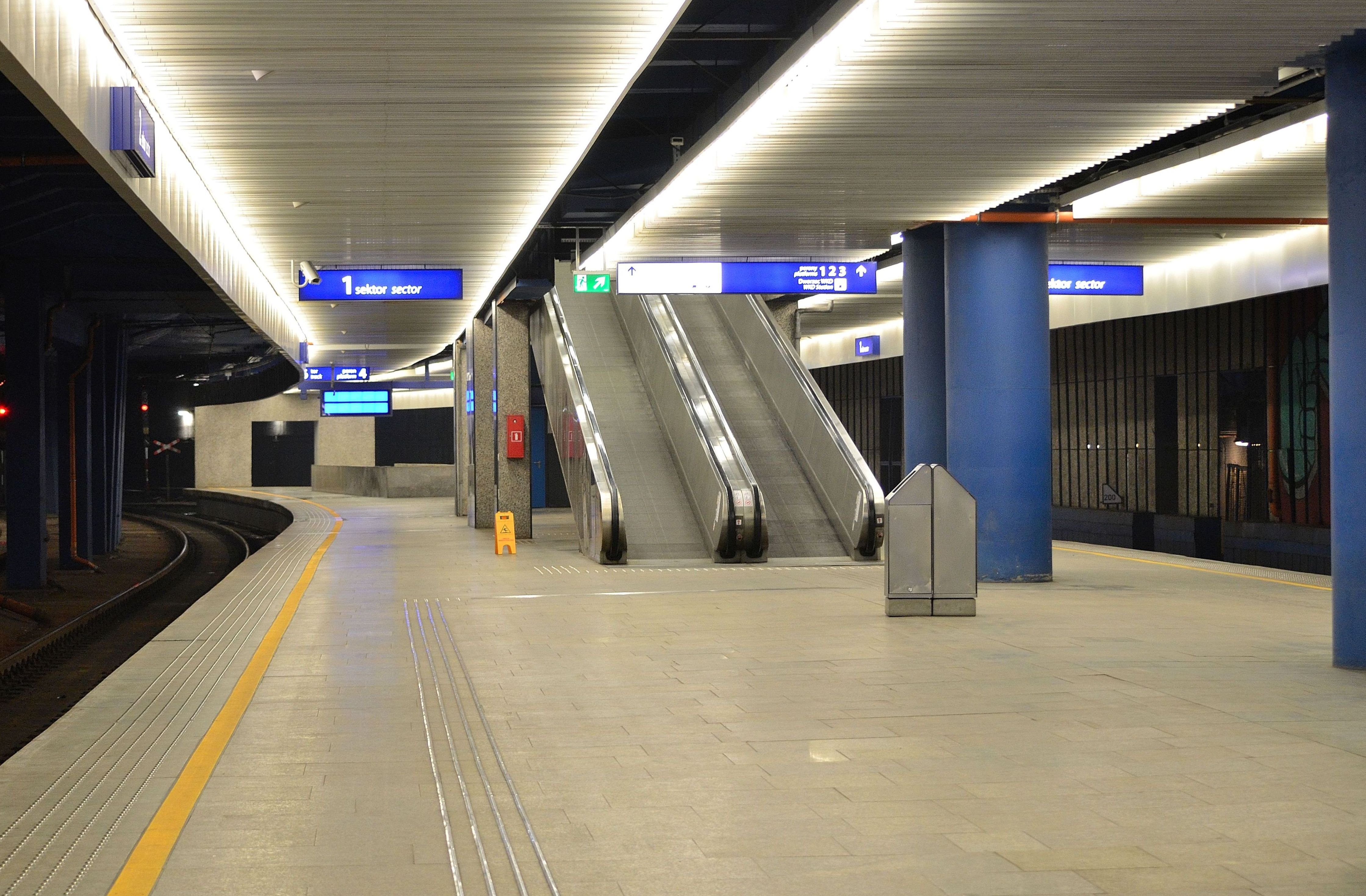 Platform 4. Warszawa Centralna railway station